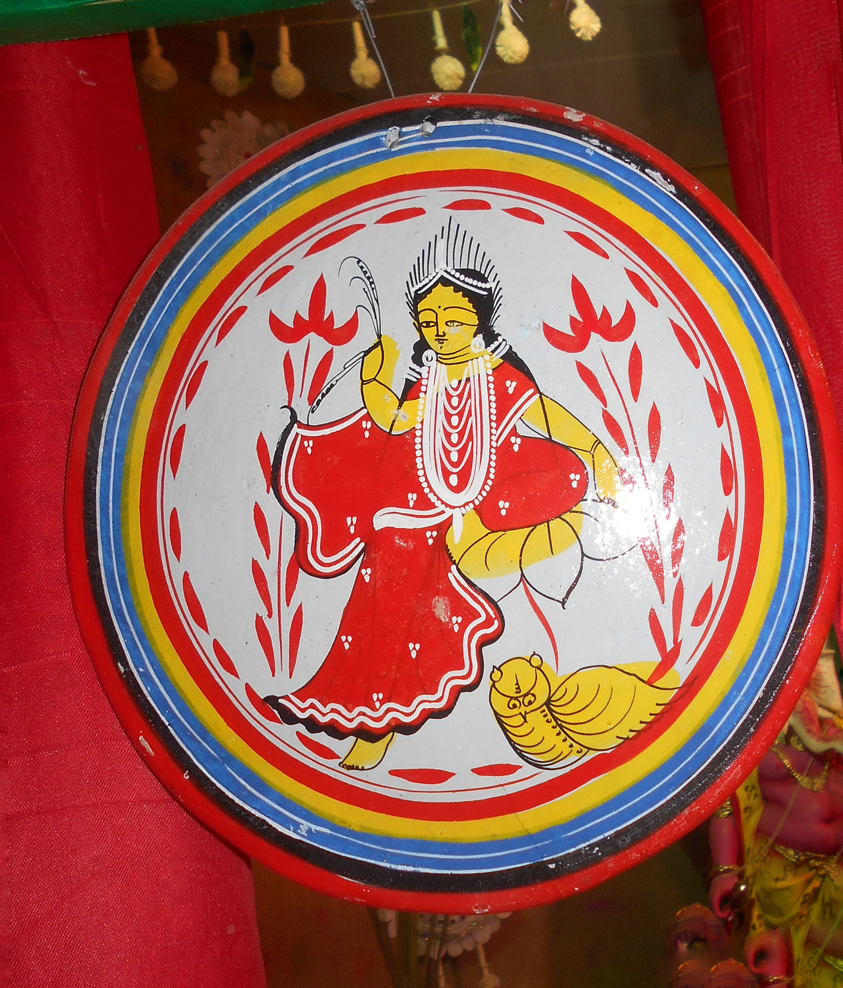 Lakkhi sara, an aspect of Bengal Patachitra